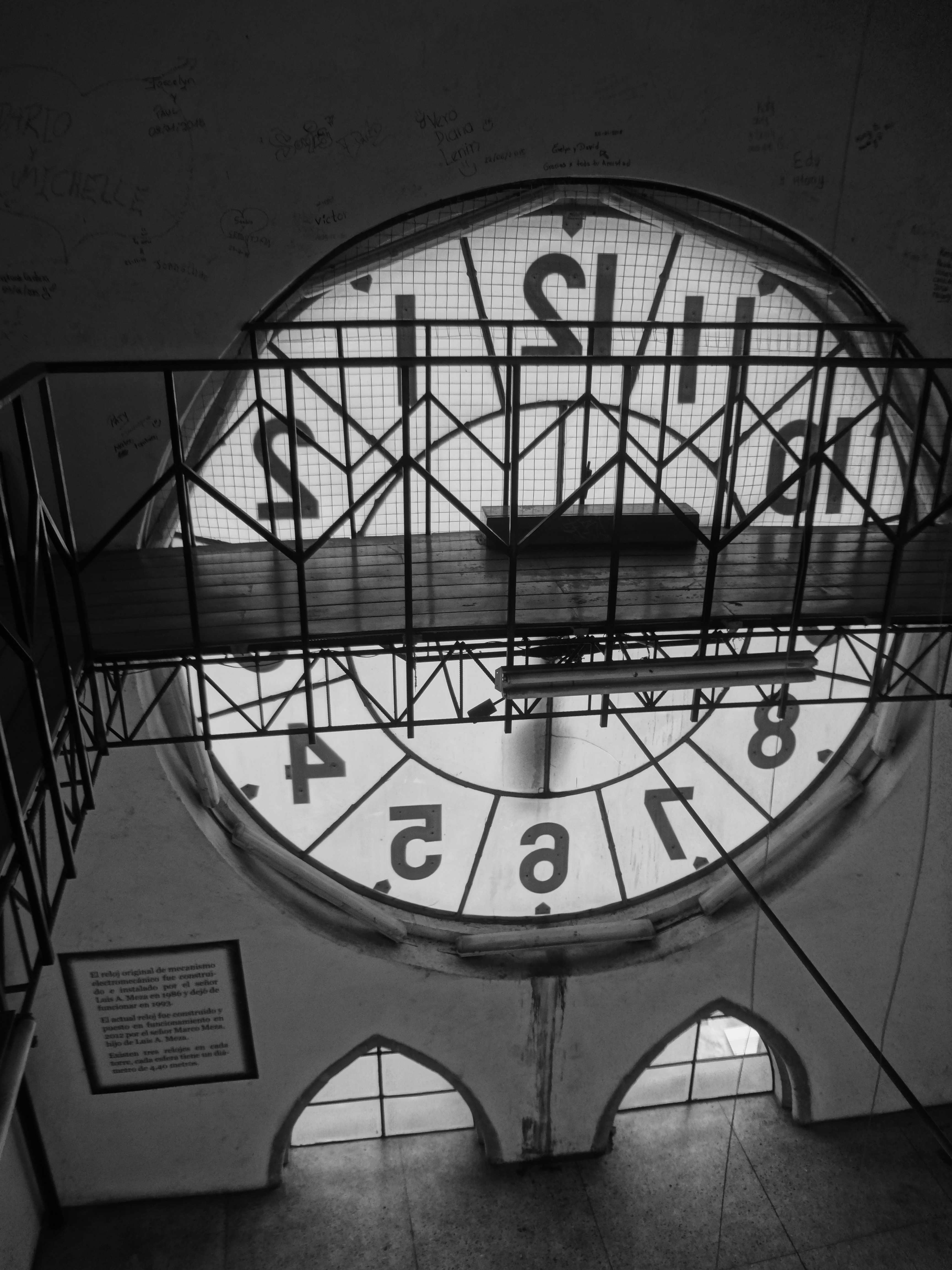 (La Basílica del Voto Nacional, Quito) inside the clock tower Photography by David Adam Kess